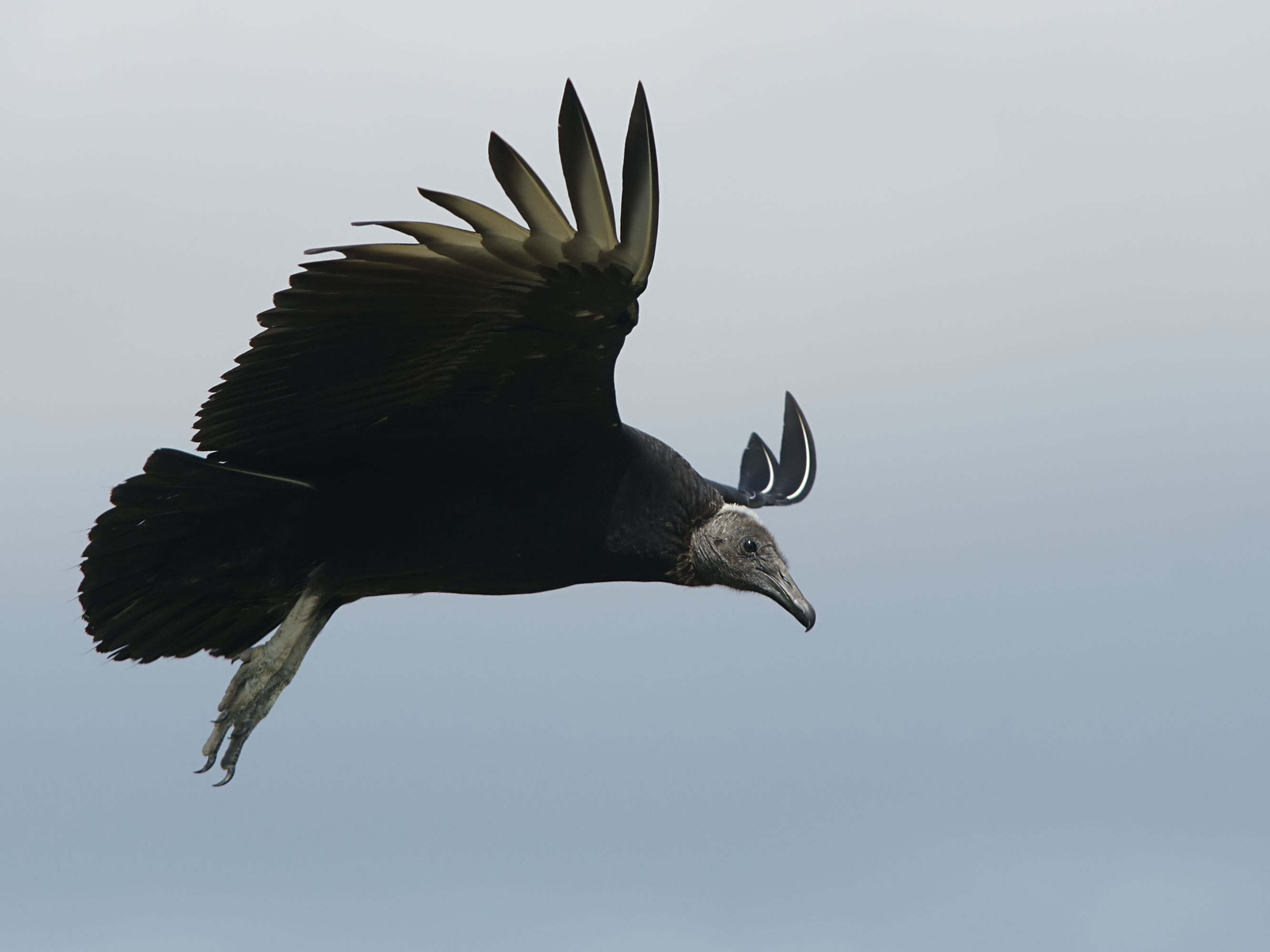 American Black Vulture at Royal Palm in the Everglades National Park in Miami-Dade County, Florida, U.S.A.